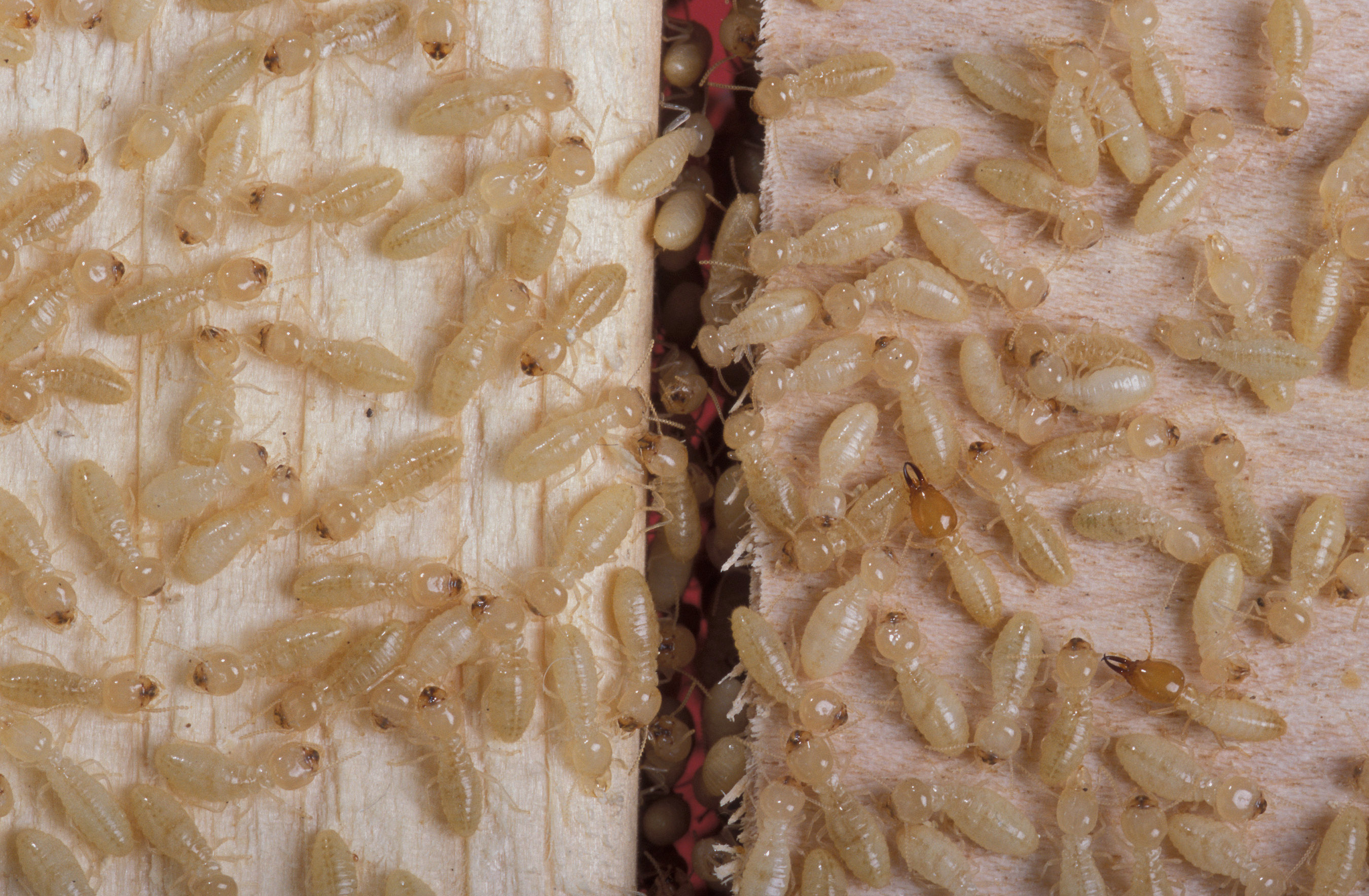 Formosan subterranean termites feeding on spruce (left) and birch wood blocks.